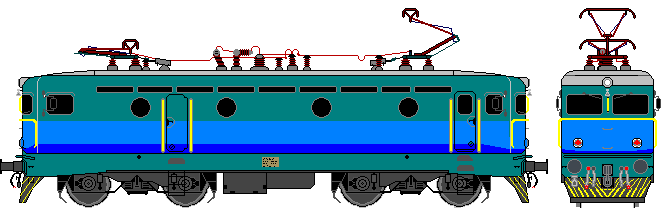 Sketch of ŽfBIH special livery. Note: the name of file is a little bit off. Should be 441 series for ŽFBiH...